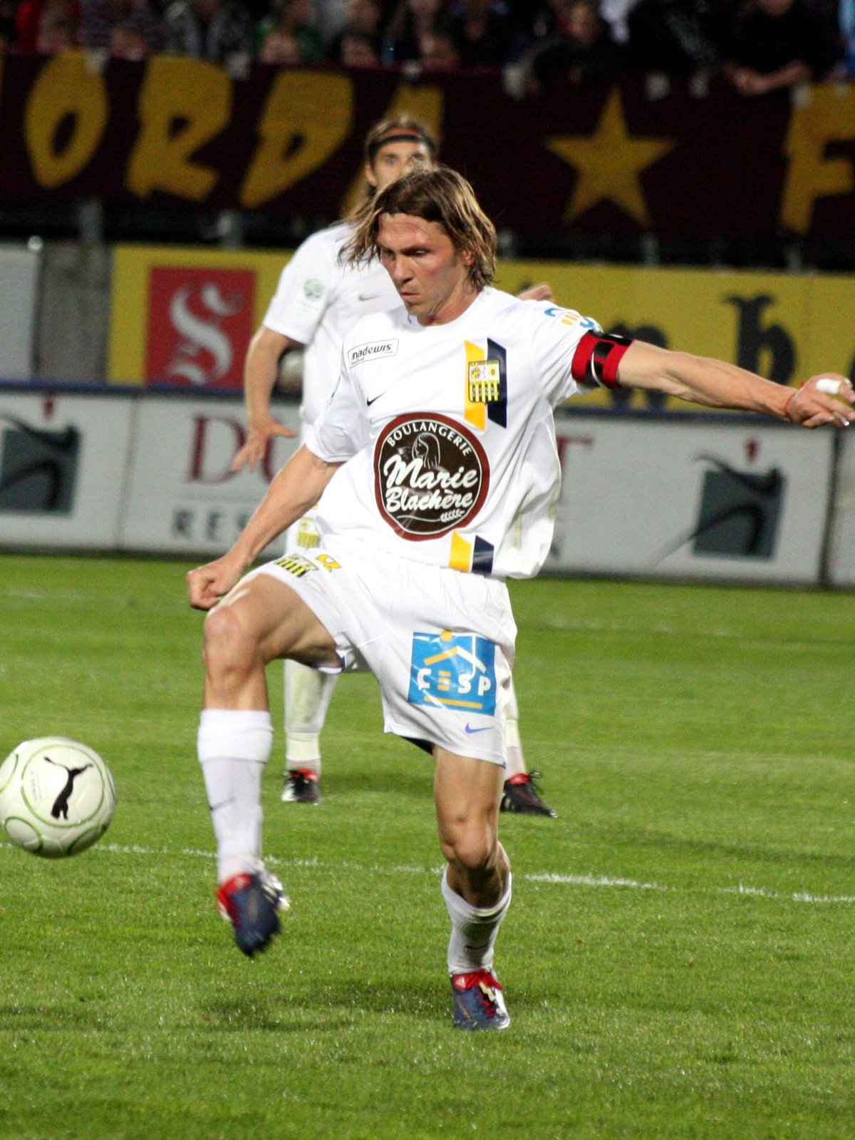 Sébastien Piocelle, soccer player of AC Arles Avignon